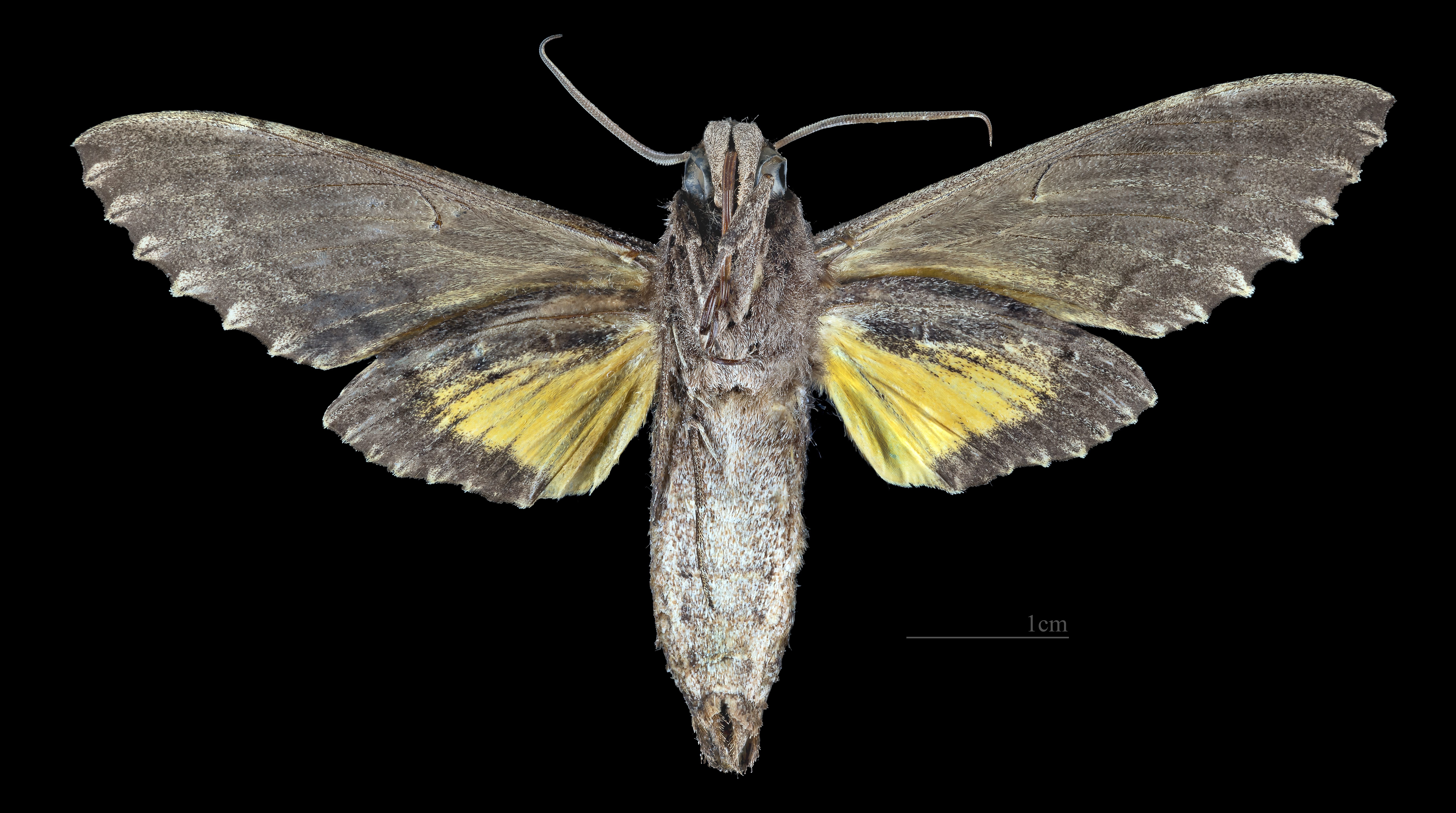 Isognathus leachii - △ Ventral side Collection of the Mathematician Laurent Schwartz